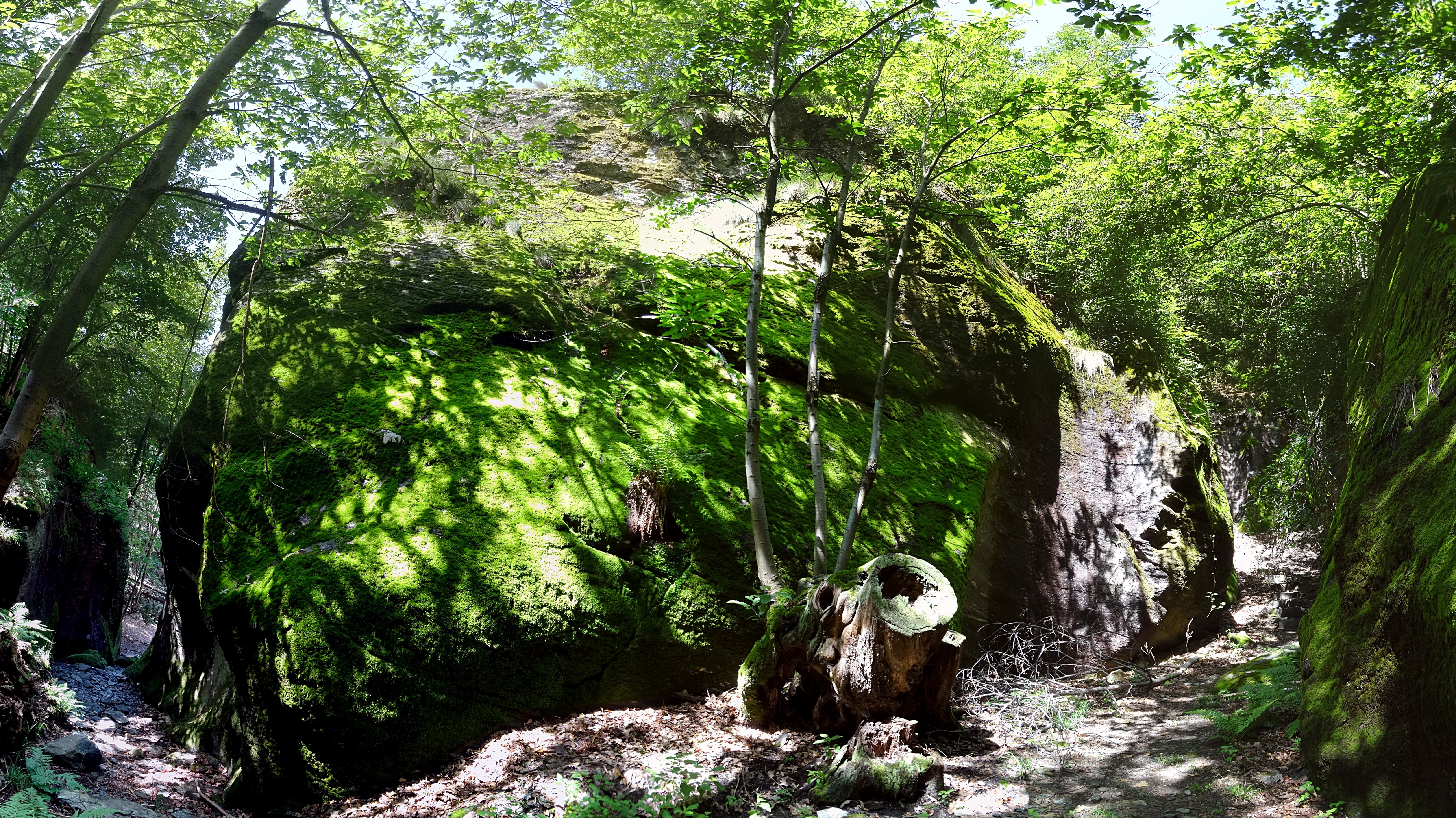 in the western gorge of Uriezzo